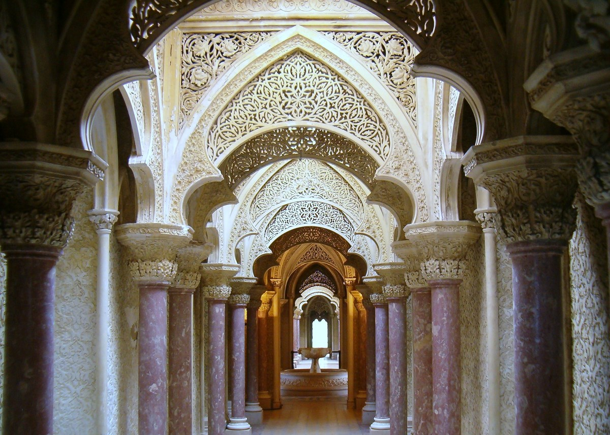 Palácio de Monserrate in Sintra